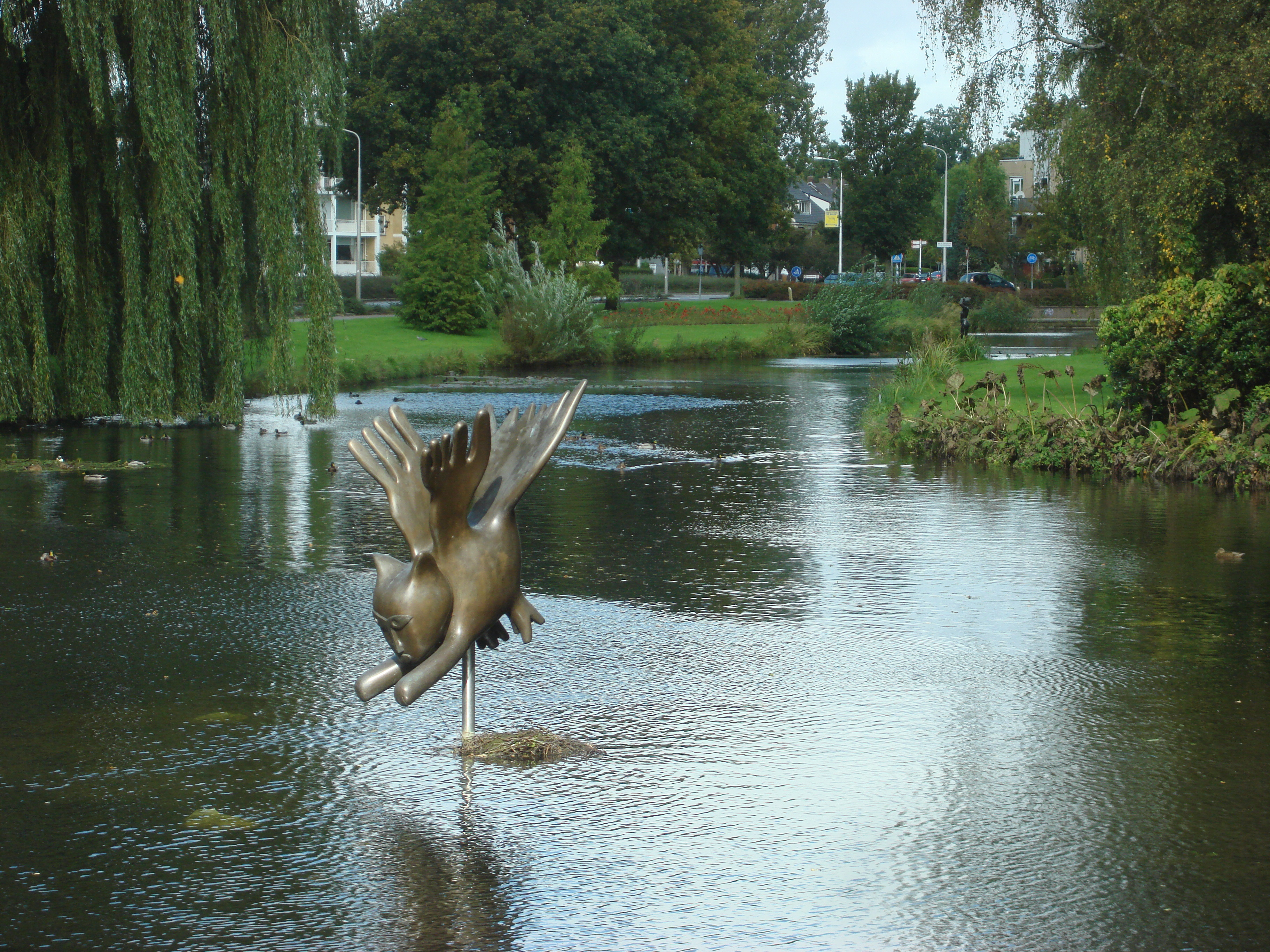 The 'Cobra museum voor moderne kunst' in Amstelveen, the Netherlands. Rear garden from museum interior